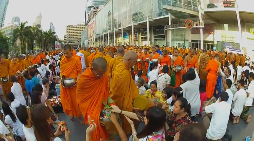 Alms giving to several thousand monks, next to Central World in Bangkok on the morning of Sunday 18th March 2012. Filmed on a GoPro HD HERO2.